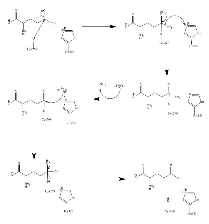 Deamination of glutamine to form ammonia and glutamate[7].